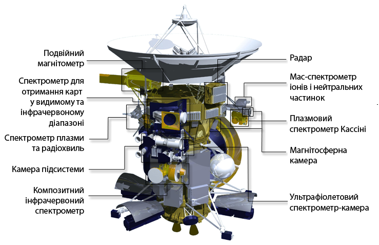 Ukrainian translation of the File:Cassini spacecraft instruments 1.png, translation requested @Ukr Graphics Lab.